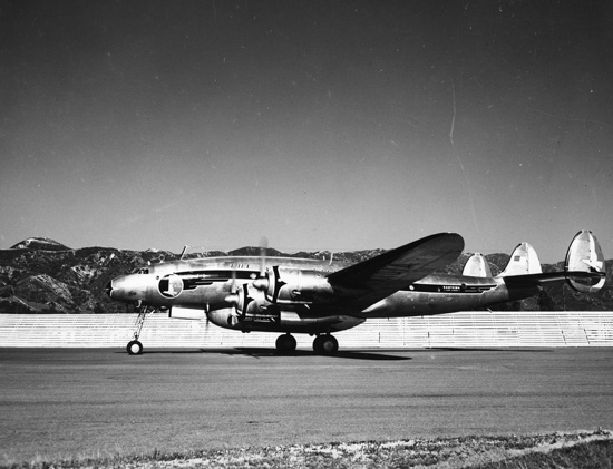 Eastern Air Lines Lockheed L-649 Constellation Repository: San Diego Air and Space Museum Archive